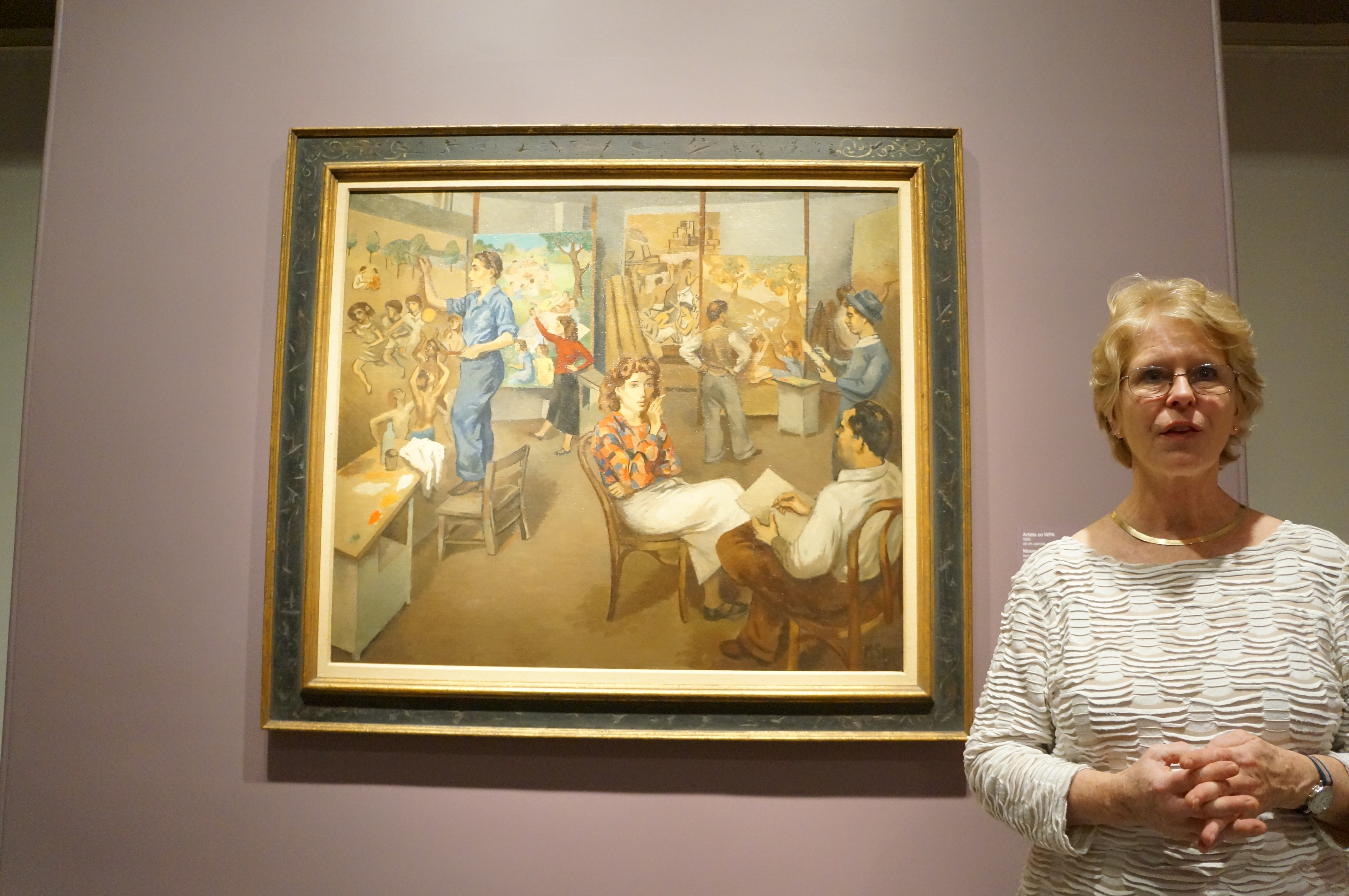 Virginia Mecklenburg standing in front of the painting Artist on WPA by Moses Soyer at the Smithsonian American Art Museum on 5 February 2015